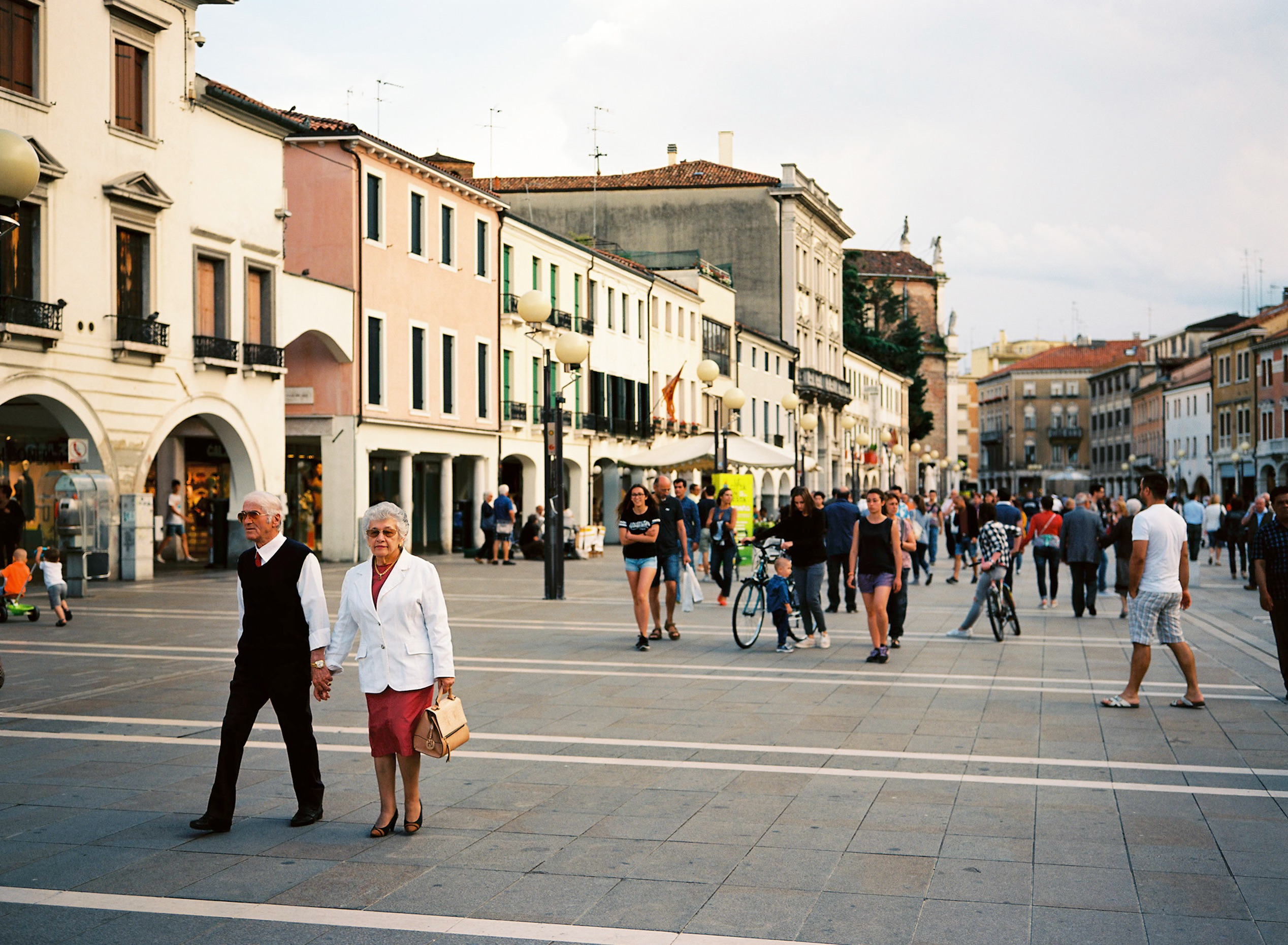 Piazza Ferretto, June 2016